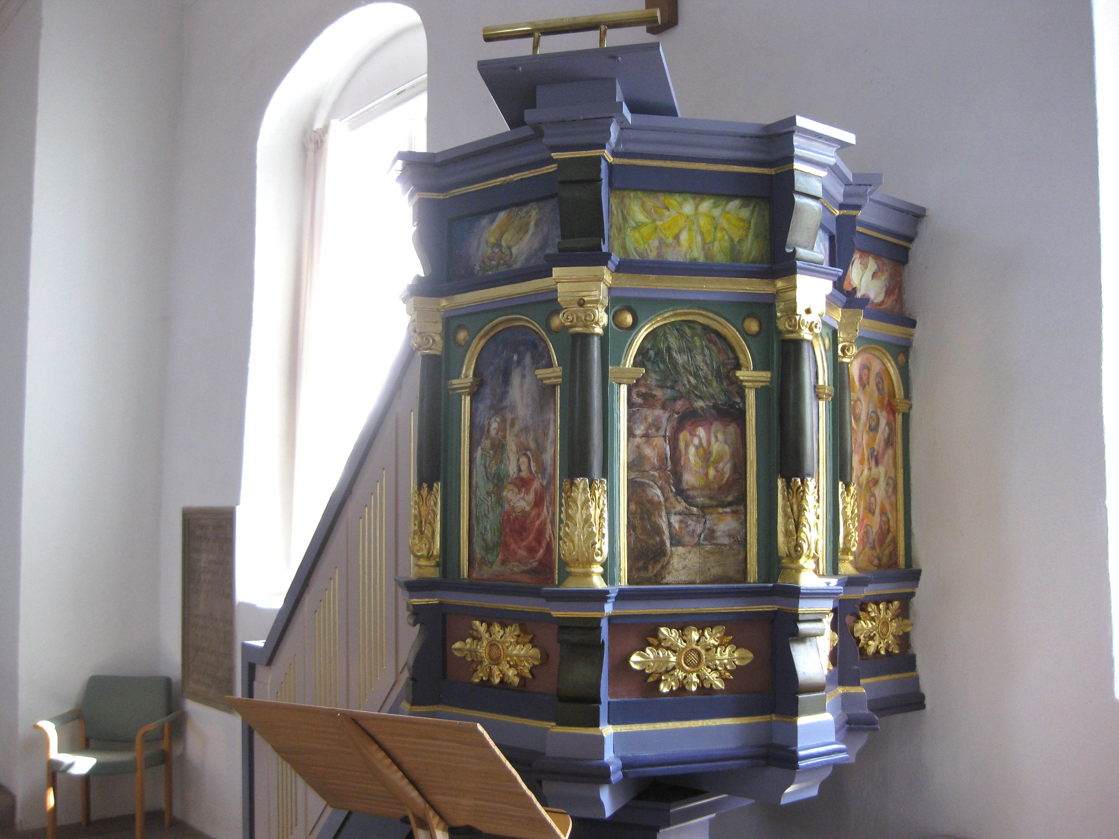 Inside of the church "Nexø Kirke" in the small town "Nexø". The town is located on the island Bornholm in east Denmark.